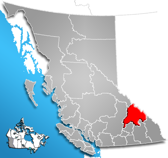 Location of Columbia-Shuswap Regional District, British Columbia